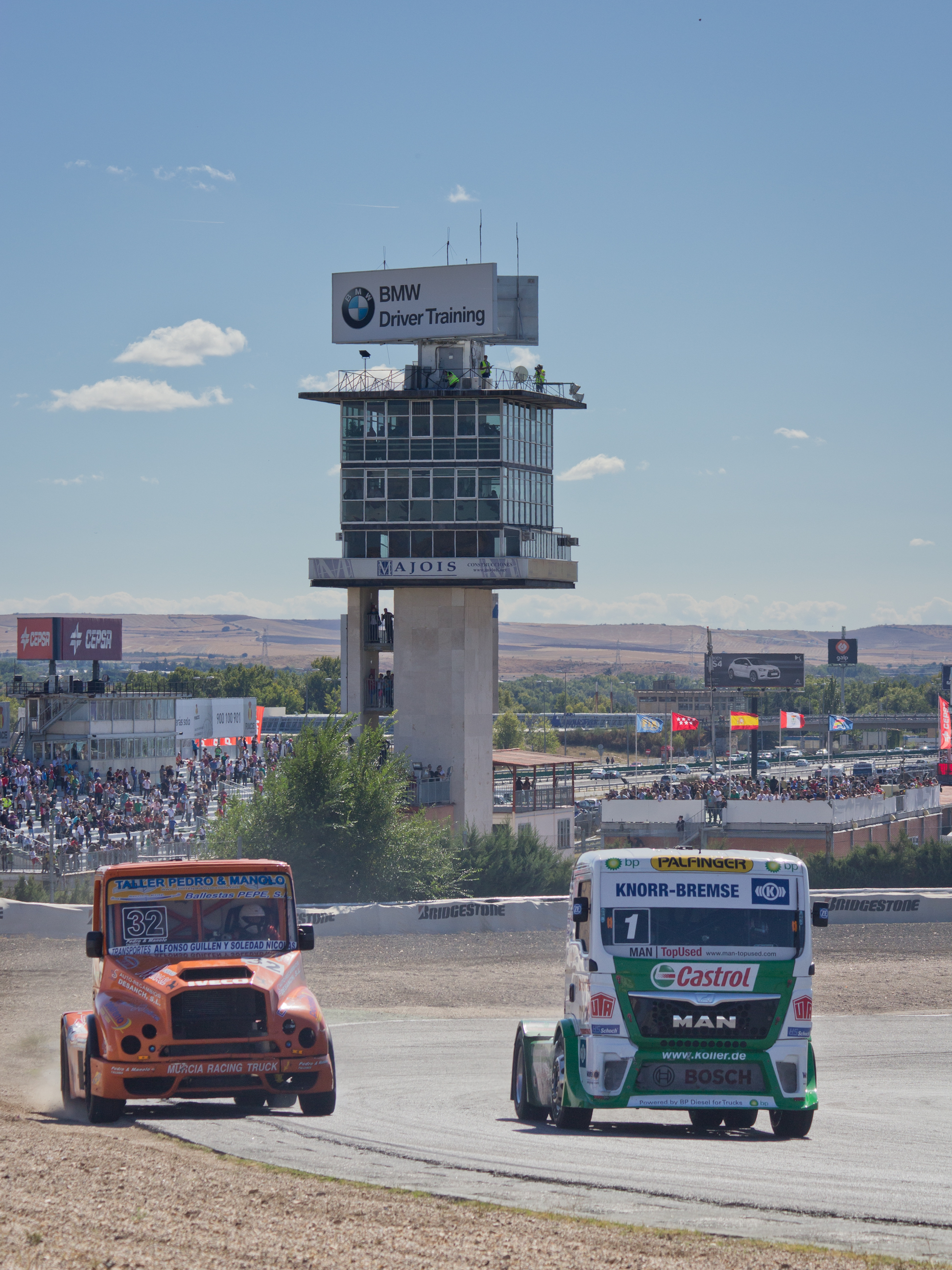 Spain Truck GP 2013, Jarama Circuit.